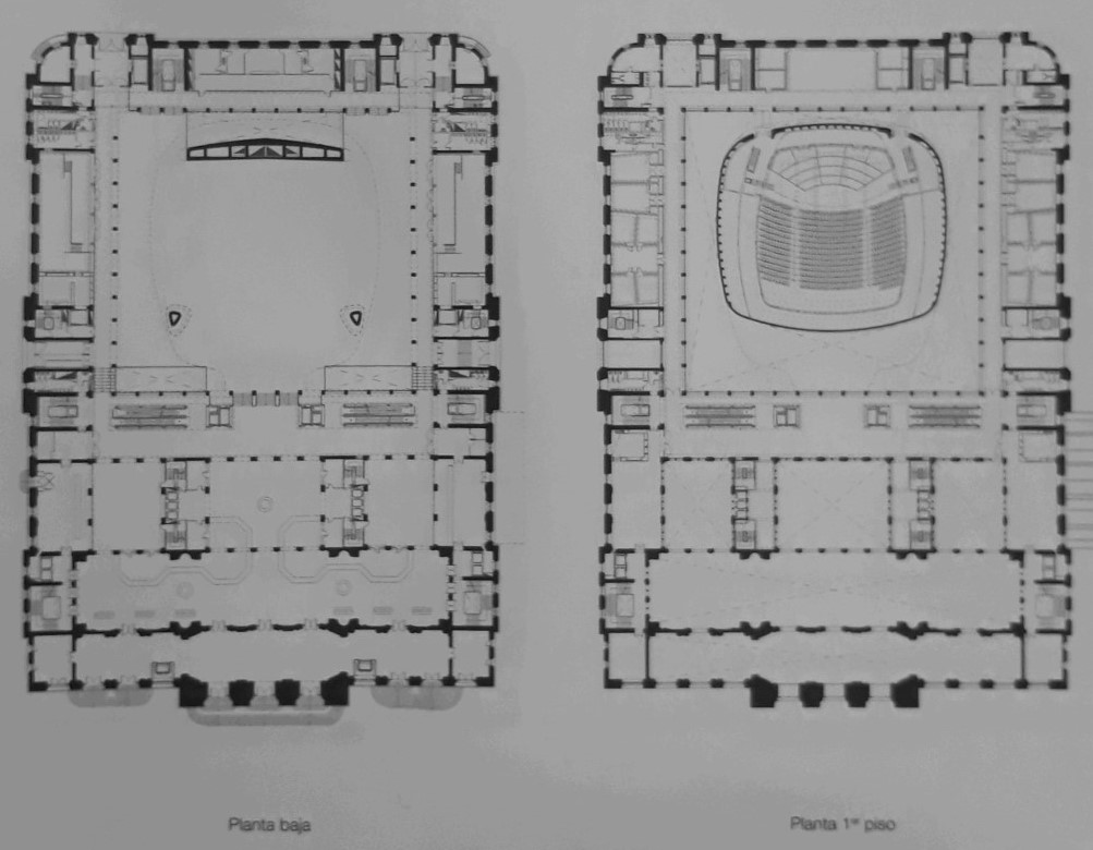 Plantas de arquitectura del Centro Cultural Kirchner